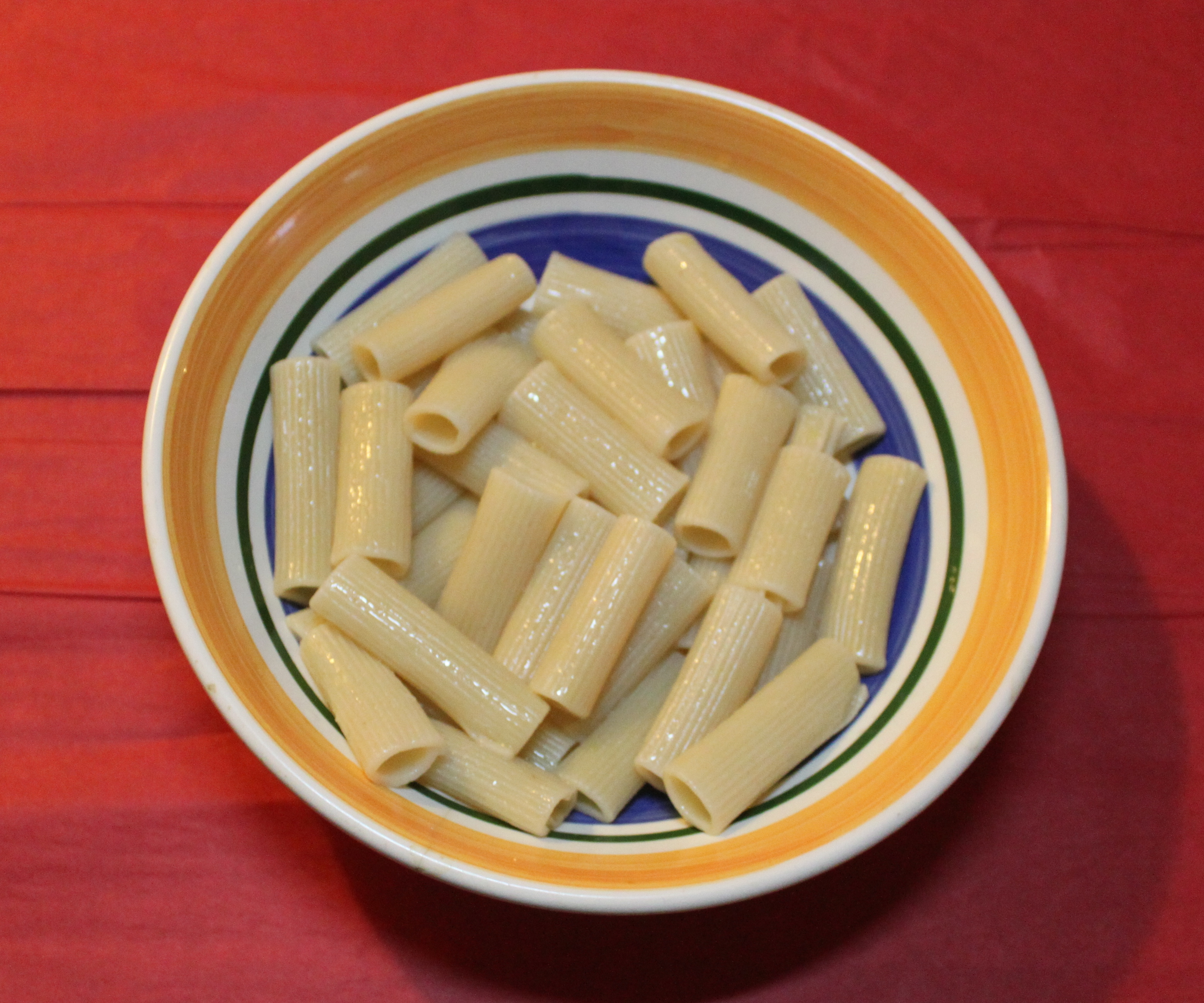 Cooked small-diameter rigatoni